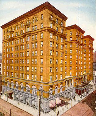 Planter's Hotel, St. Louis, Missouri, by Isaac S. Taylor, 1894.